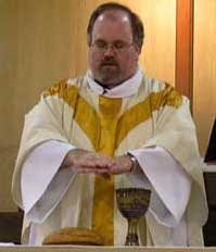 Dr. Gregory S. Neal, UM Elder, presides at the Eucharist.